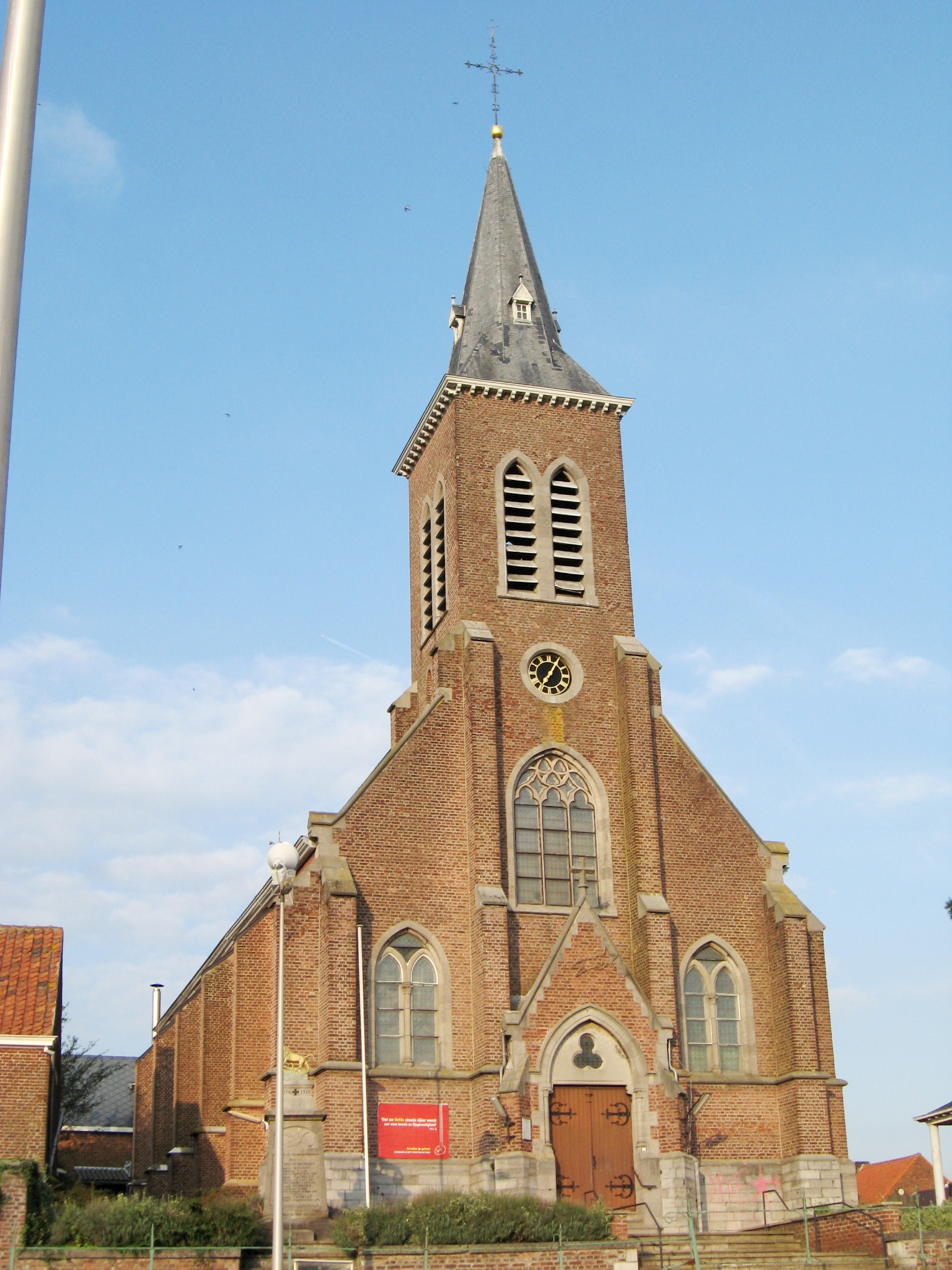 Church of Saint Saturninus in Mielen-boven-Aalst, Gingelom, Limburg, Belgium